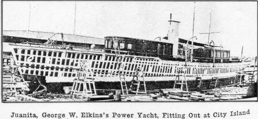 The yacht At Robert Jacobs shipyard, City Island, NY "The Juniata looked odd when her picture was taken. The war paint had been scraped off and the frames had been cemented preparatory to repainting, and it looks as if the yacht was in frame about to be plated. Photo and article from a 1920 edition of The Rudder magazine."